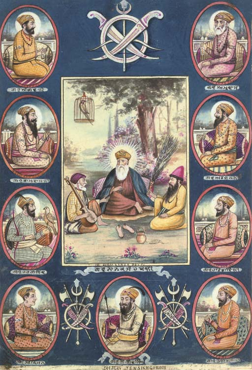 Portraits of the Gurus, from the late 1800's or early 1900's (downloaded Mar. 2007) "PORTRAITS OF THE TEN SIKH GURUS, INDIA LATE 19TH/EARLY20TH CENTURY. Gouache on paper, depicting Guru Nanek at centre seated under a tree with his companions Mardana and Bala, surrounded by the other nine gurus in oval frames their names written in English and in Punjabi underneath, mounted, framed and glazed - 16 5/8 x 12 5/8 (42.5 x 32.5cm)."